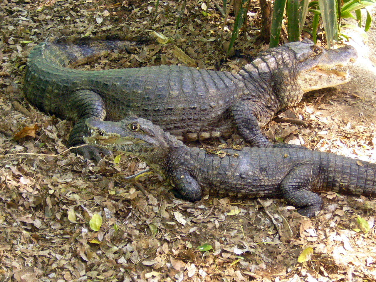 Cocodrilos en Monterrico, Guatemala